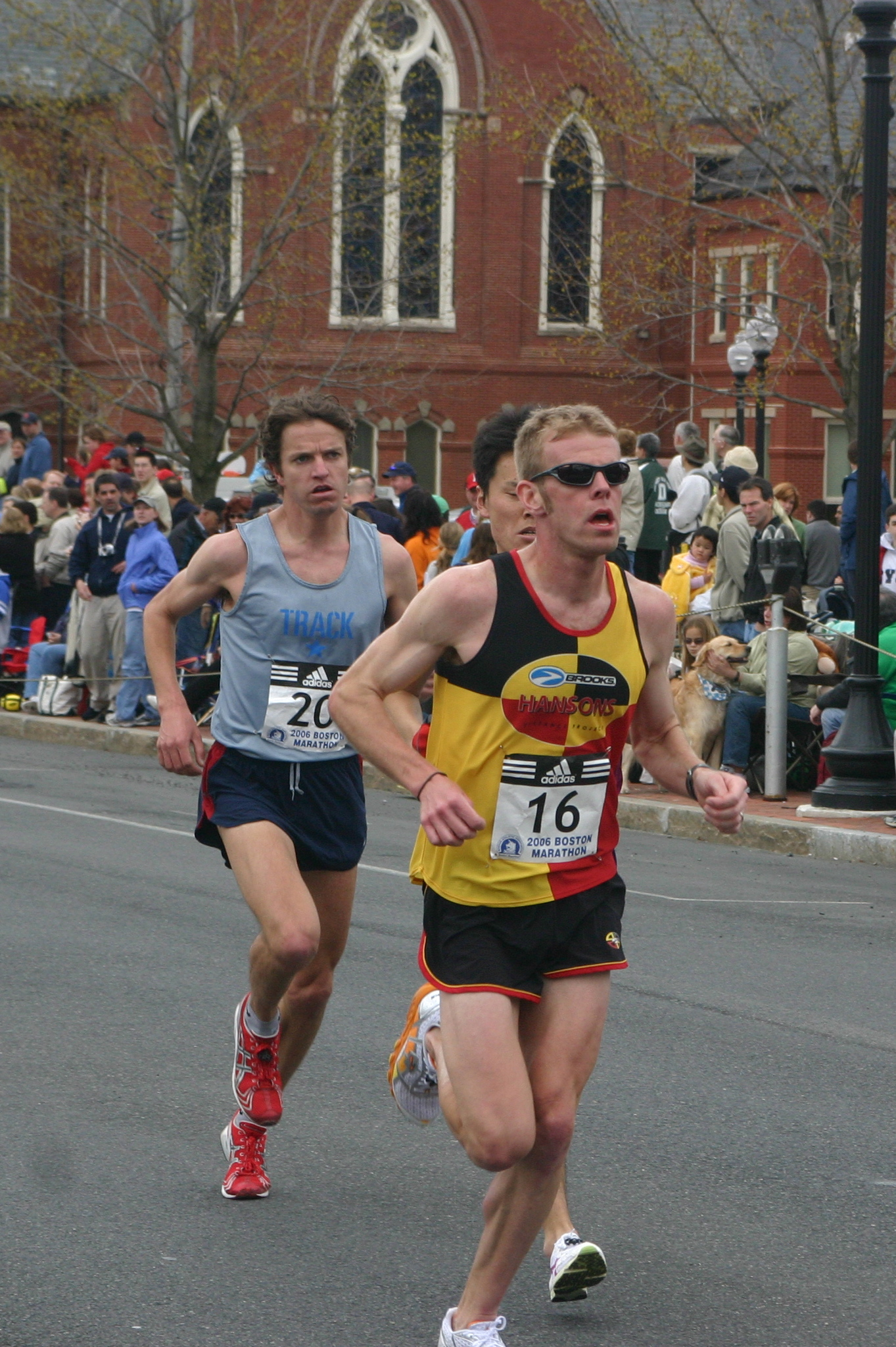 Brian Sell came in 4th (first American) Bib #20 - Peter M. Gilmore (USA) - came in 7th with a time of 2:12:45